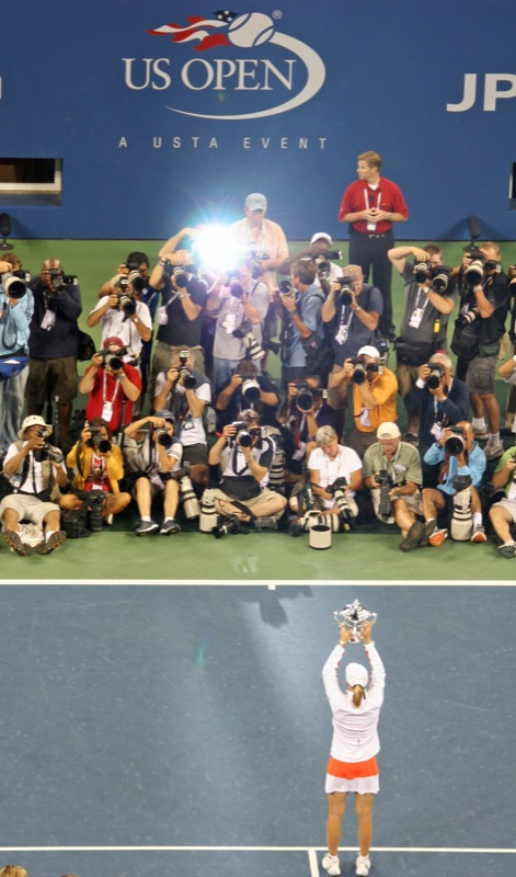 Justine Henin - 2007 US Open Champion